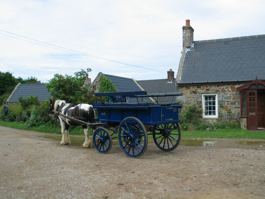 Horse-drawn carrige on Sark